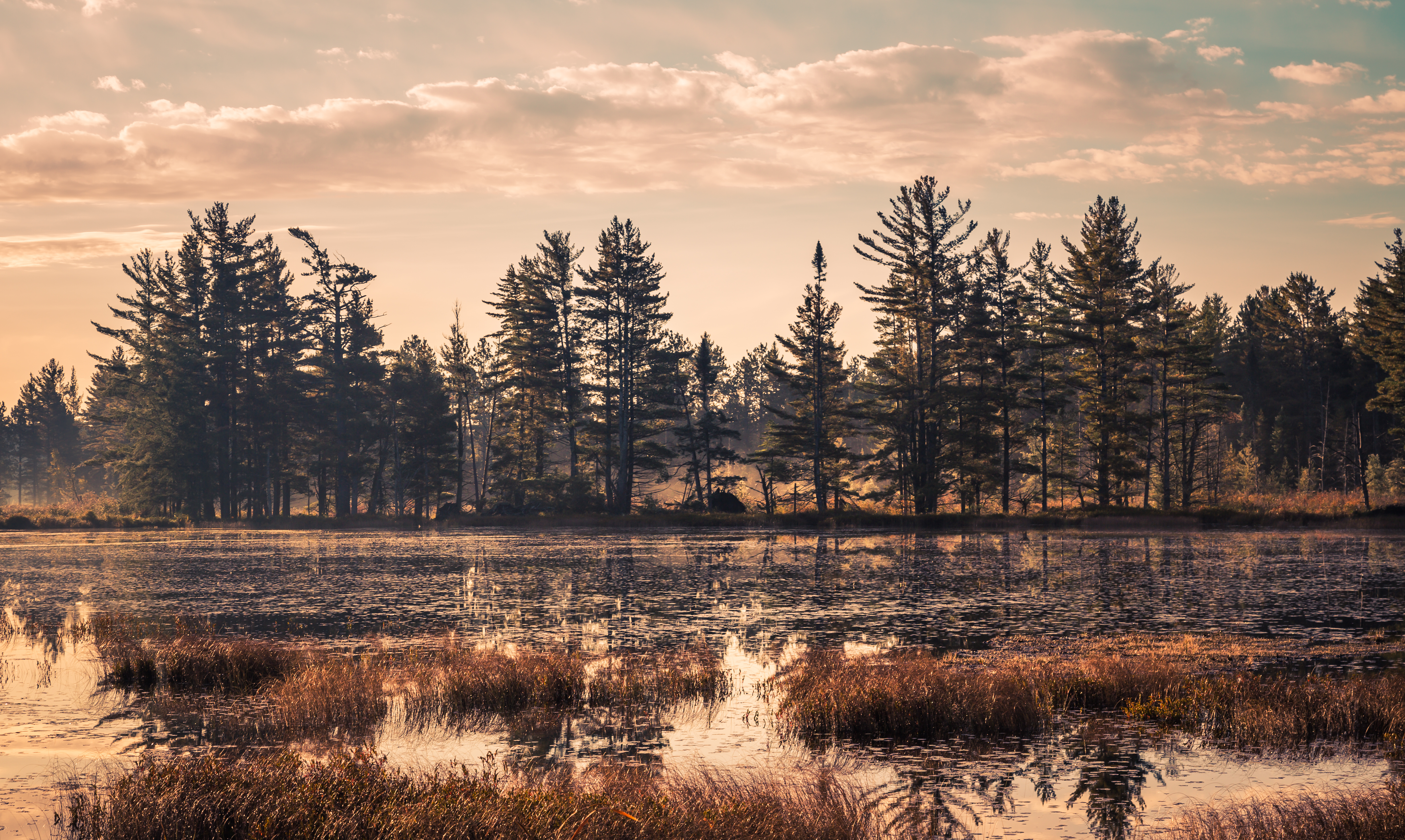 A bog at sunrise on a foggy morning at Newberry State Forest Area near McMillan Township, Upper Peninsula, Michigan.